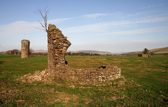 The remains of Boghall Castle at Biggar This was once the seat of the Fleming family but only the remains of three towers dating from the 15th century are standing in this field near Boghall Farm. Due to a grid line running through the site, the near tower and the tower on the right are in NT 0436 while the tower to the left is in NT 0437.